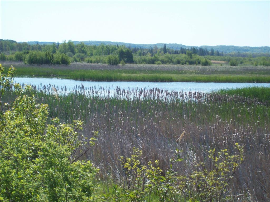 Betsie River Wetland